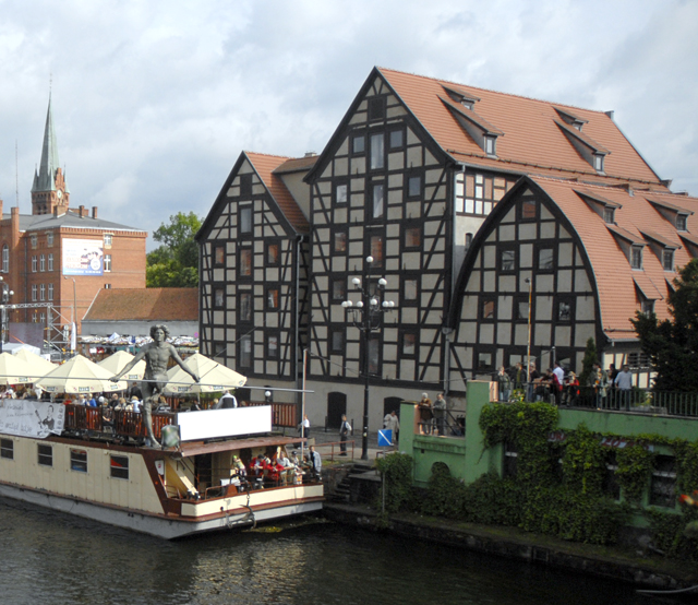 Granaries on the Brda River